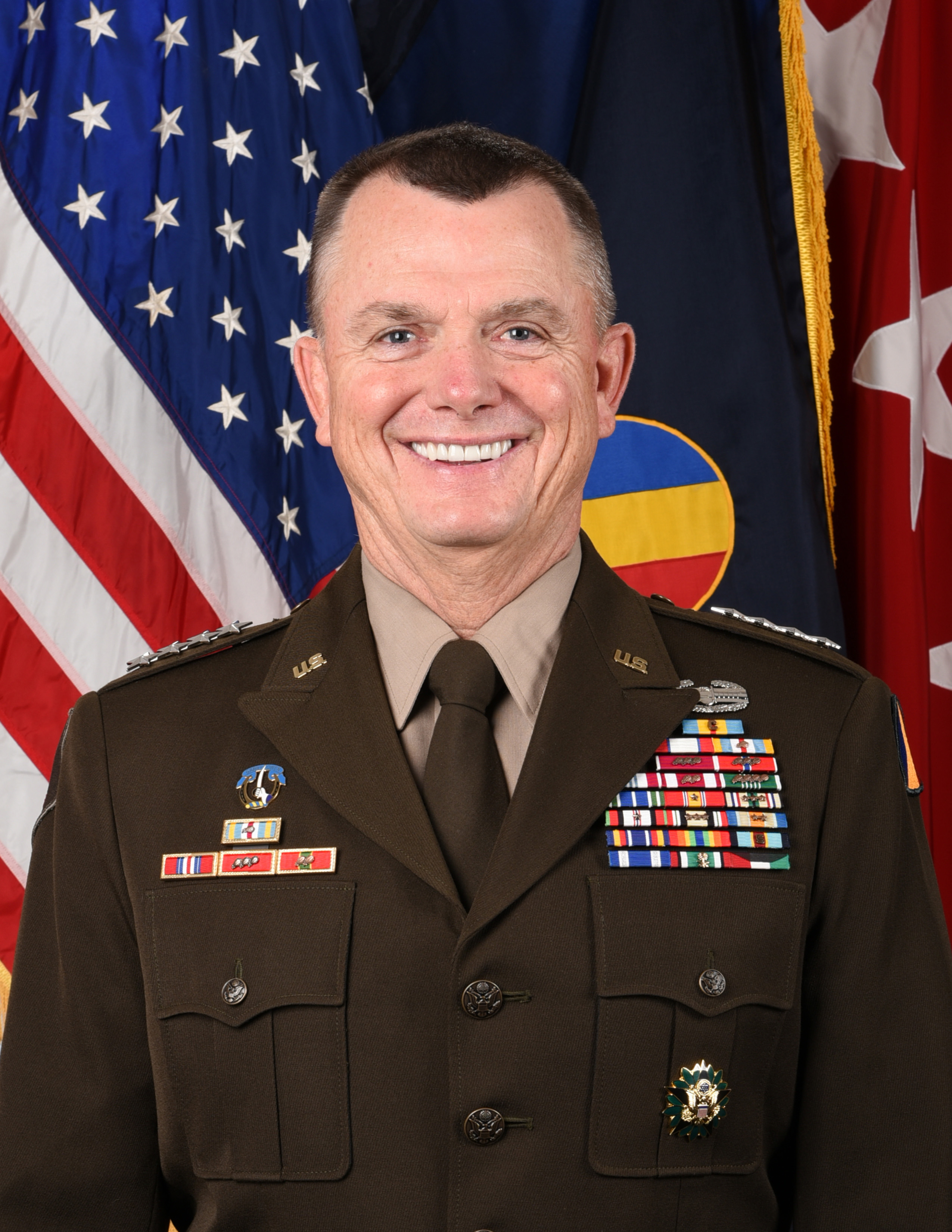 Gen. Paul E. Funk II, Commanding General, U.S. Army Training and Doctrine Command. (U.S. Army courtesy photo)